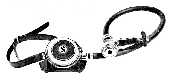 2nd stage regulator, Souplair by Beuchat, launched in 1964